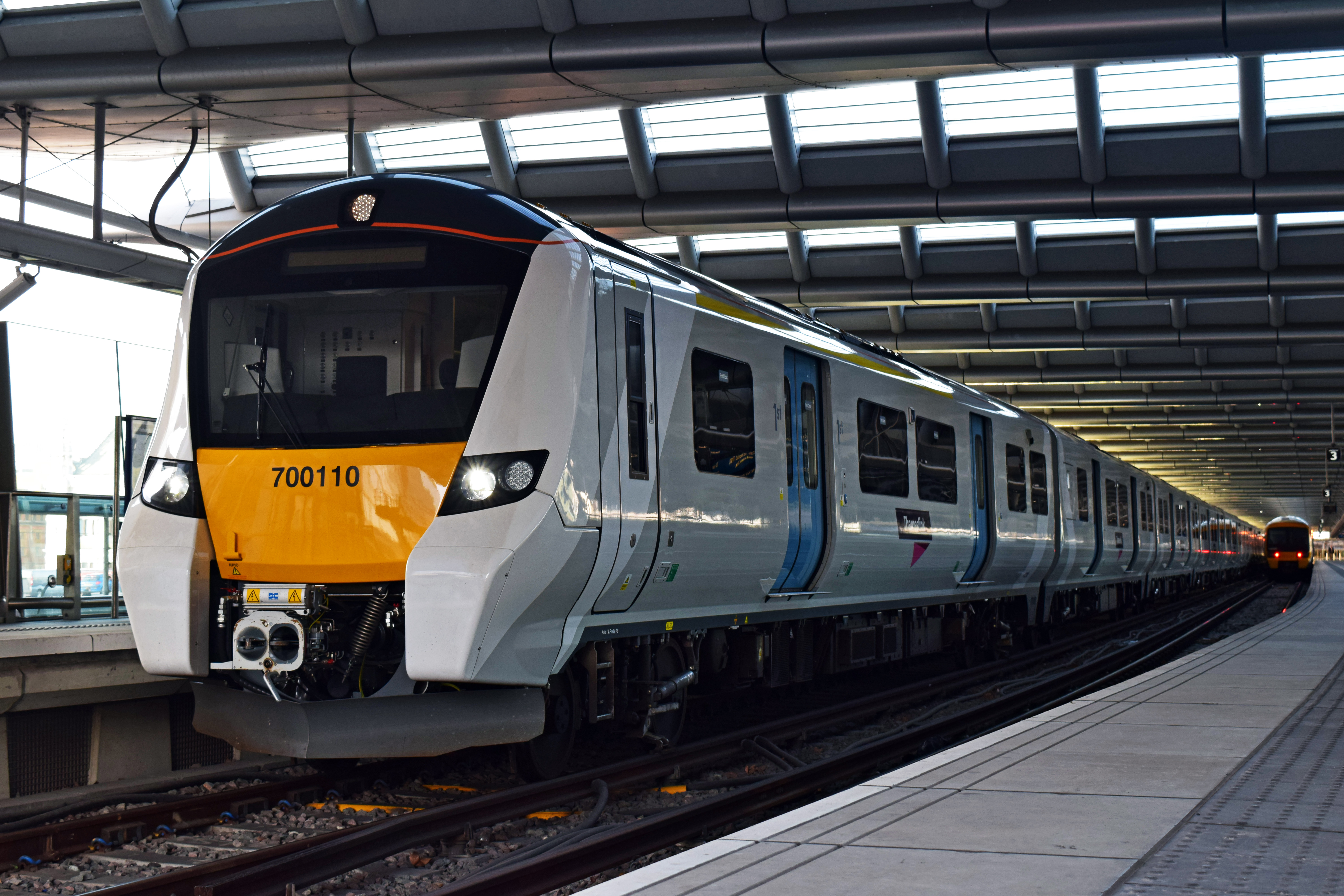 700110 at London Blackfriars working 3T13 London Blackfriars to Three Bridges TL Up Depot